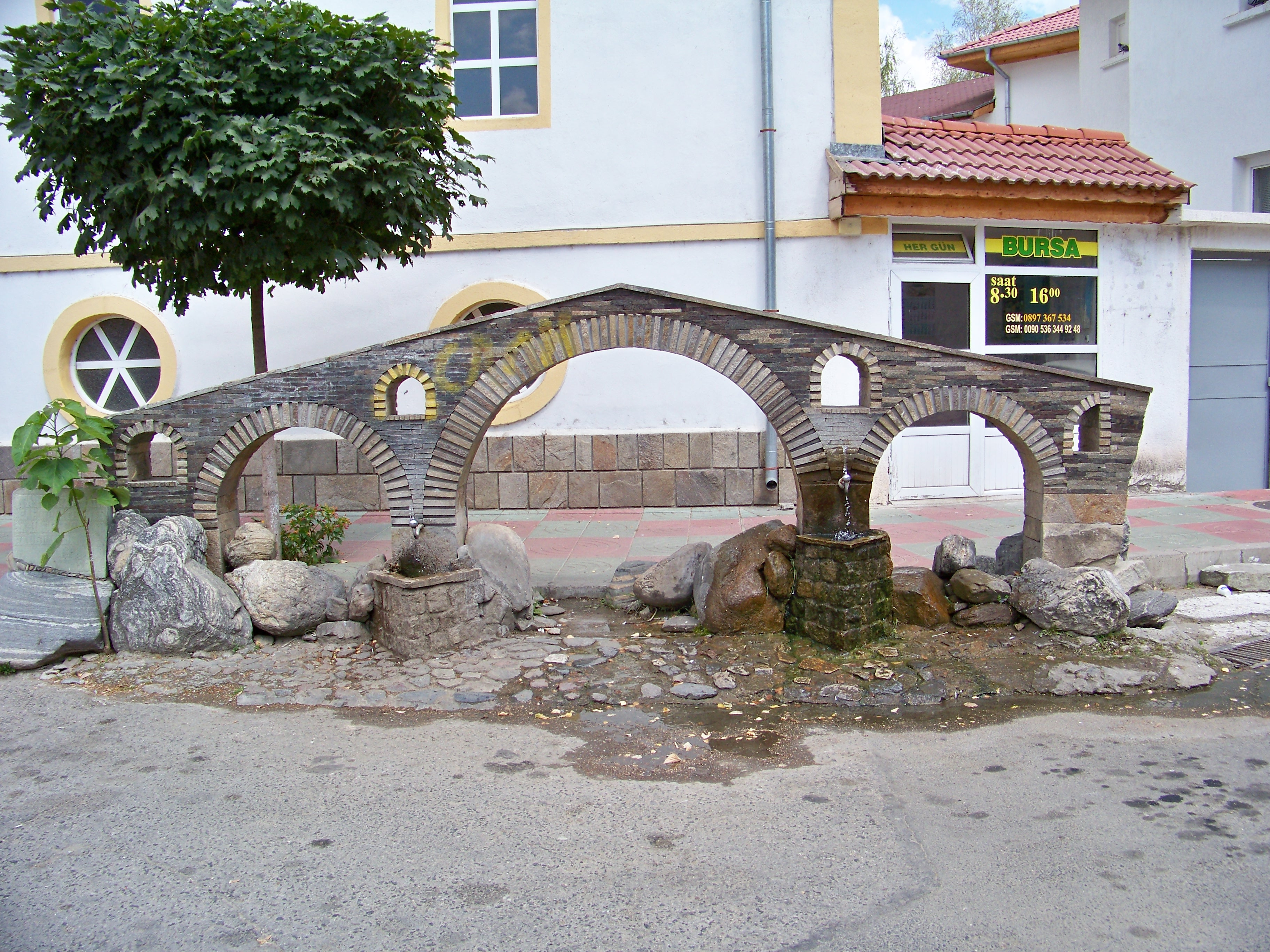 Drinking fountain in Ardino, Bulgaria